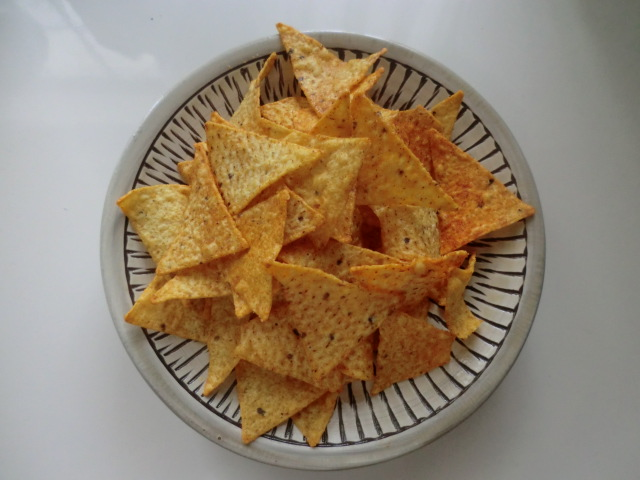 Japanese taco snack food "Don-Tacos" made by Koikeya.